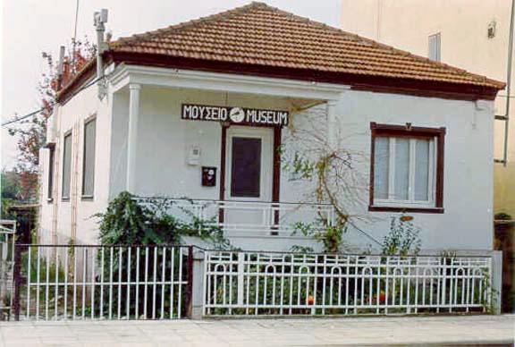 View from outside, image from the Nestos Nature Museum, Hryssoupoli, East Macedonia, Greece